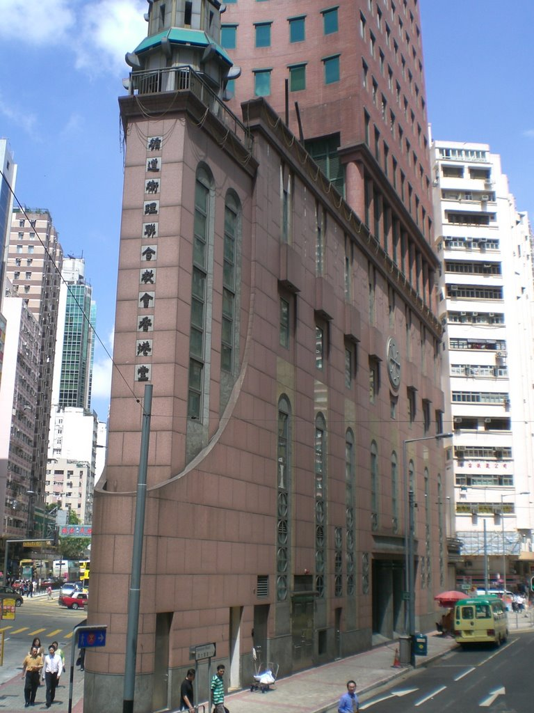 香港zh:灣仔zh:軒尼詩道36號, 循道衛理大廈, 36 Hennessy Road & 1 Johnston Road, Wan Chai, Hong Kong Author= SHOLYWOD